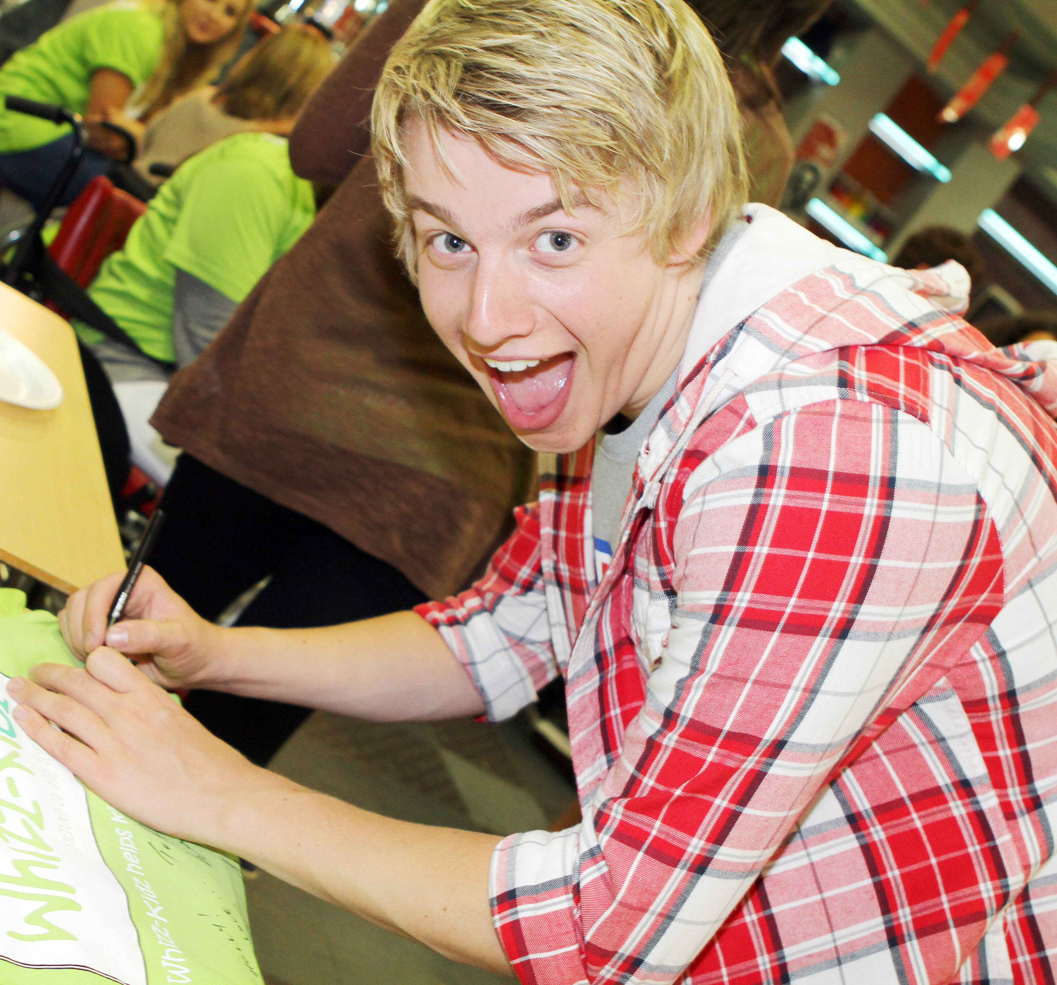 British actor Miles Higson pictured by Whizz-kidz and Lime Pictures in 2011 on the set of Hollyoaks